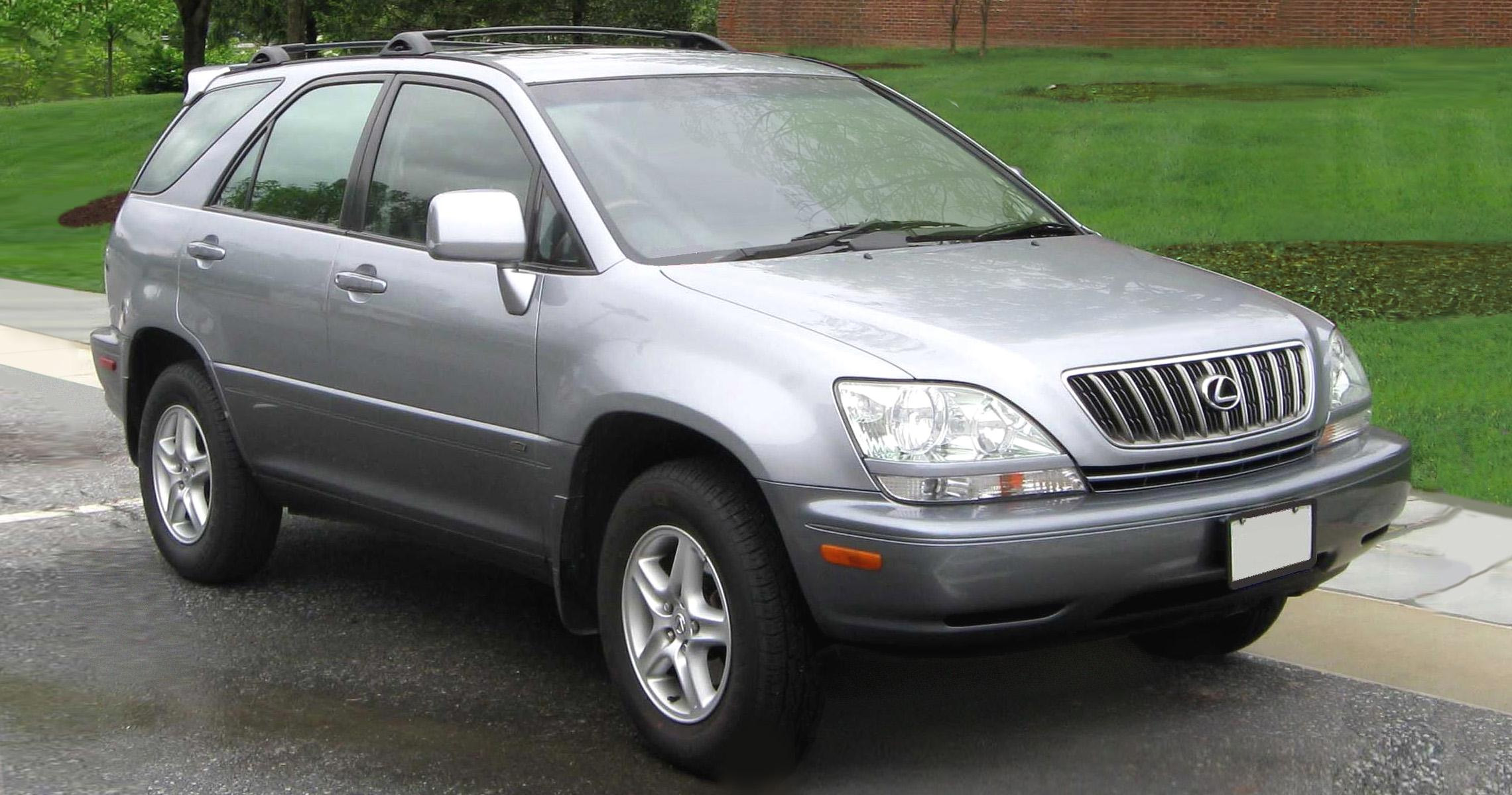 Lexus RX300 photographed in College Park, Maryland, USA.